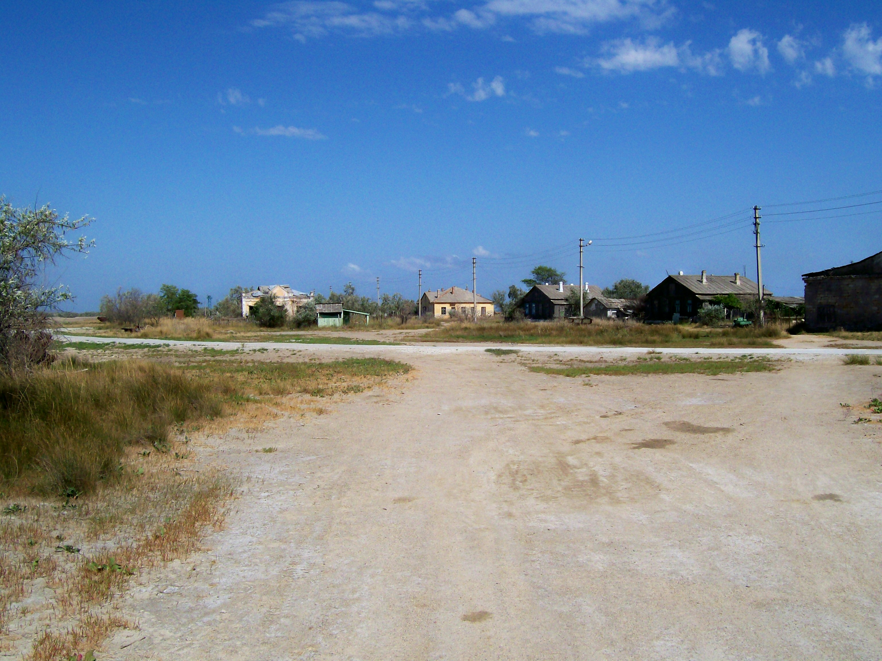 Tuzla Island, the fishing village, august 2007